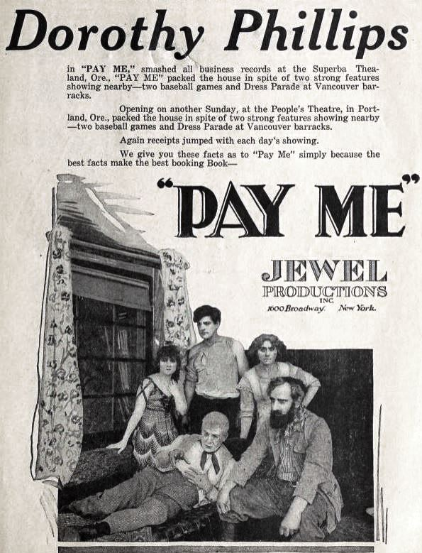 Advertisement for the American drama film Pay Me! (1917), on page 45 of the March 9, 1918 The Moving Picture Weekly.